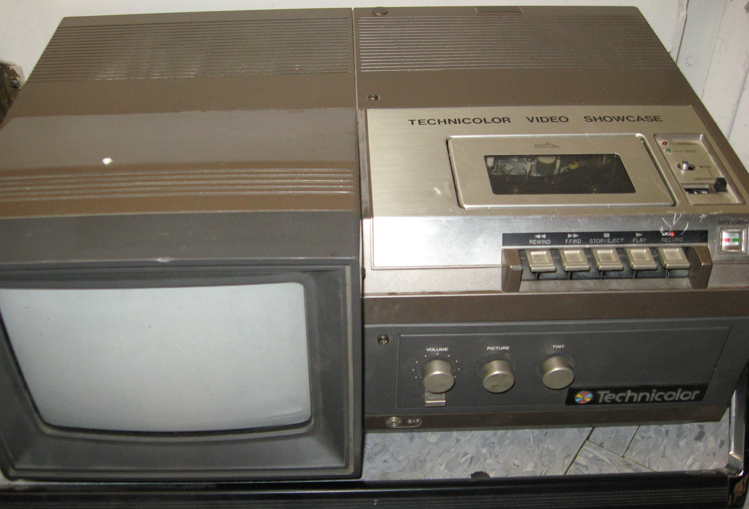 Technicolor CVC Videocassette recorder with monitor at DC Video [1]